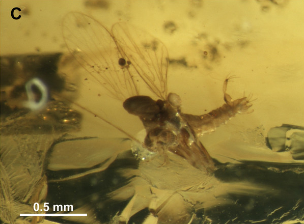 Phlebotominae: (C) Phlebotomites aphoe ♂: Holotype specimen.